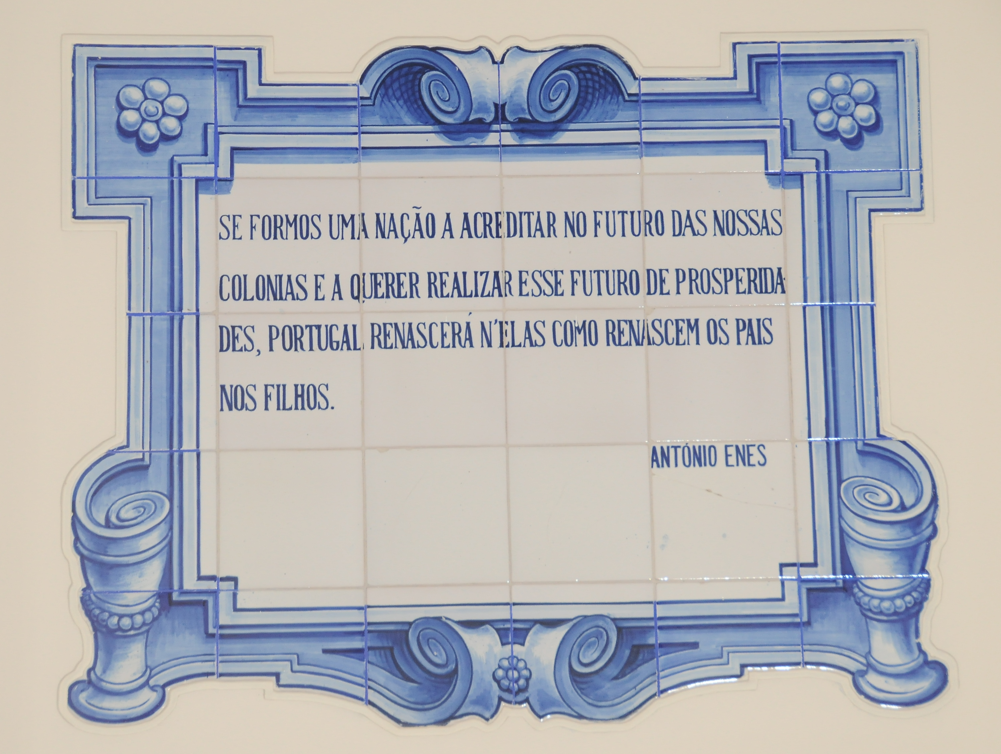 Azulejos with a saying from António Enes, in Centro Cultural Rodrigues de Faria, Forjães, Esposende, Portugal.